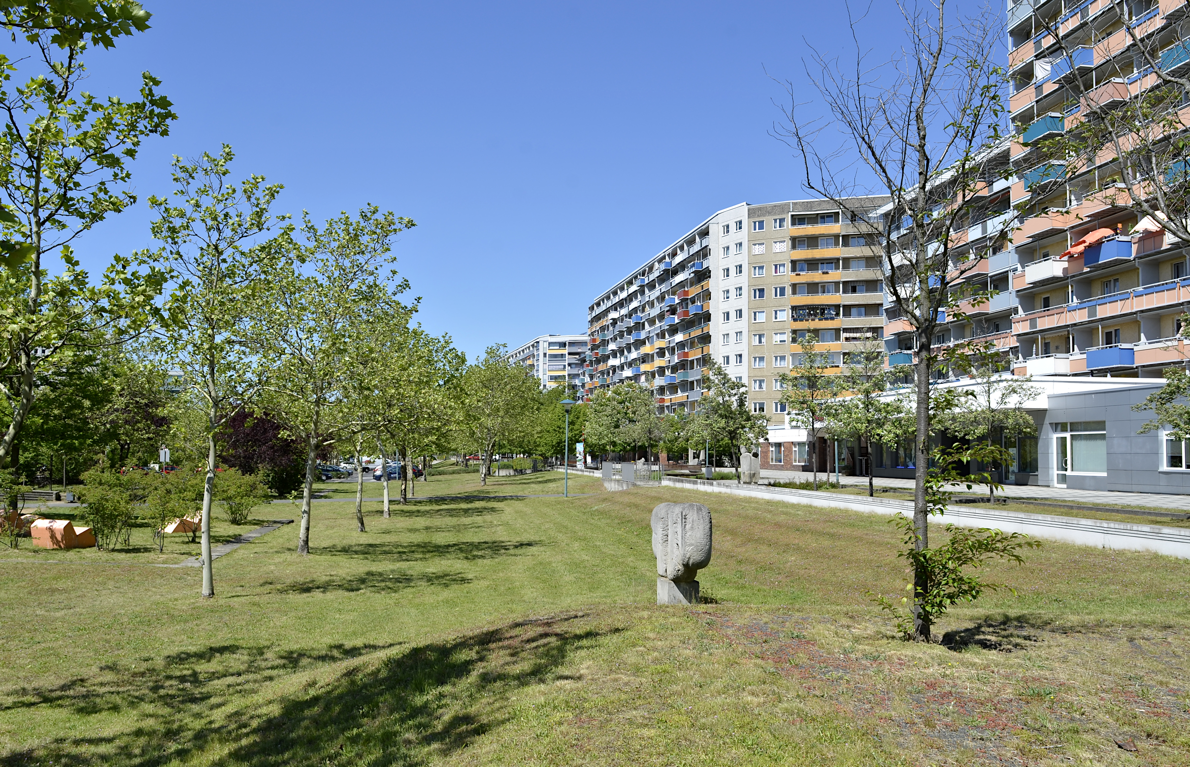 Modernized Plattenbauten alongside the eastern section of Gelsenkirchener Allee in Cottbus-Sachsendorf.